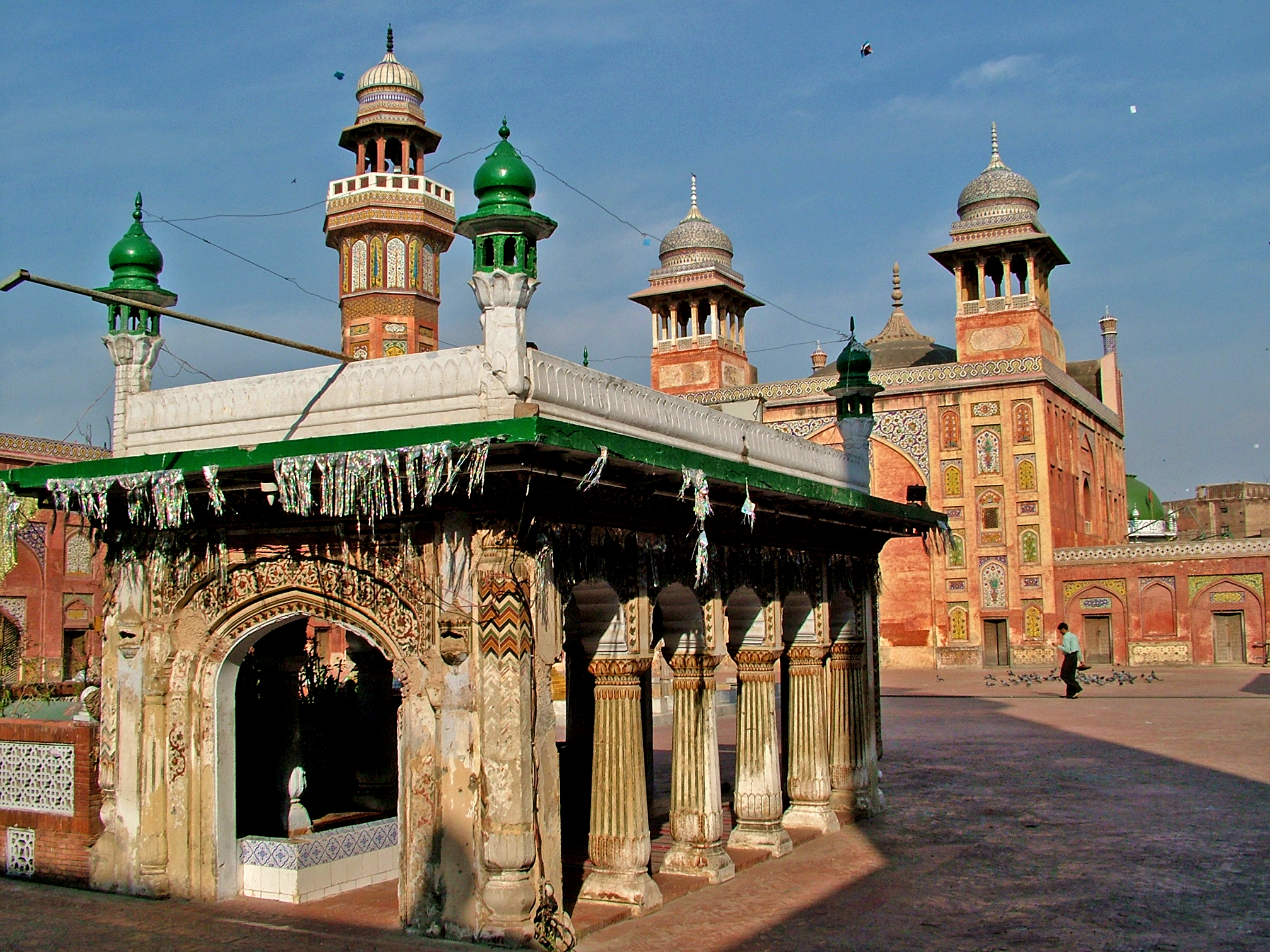 The Tomb of Syed Muhammad Ishaq — inside the courtyard at the Wazir Khan Mosque, Pakistan.